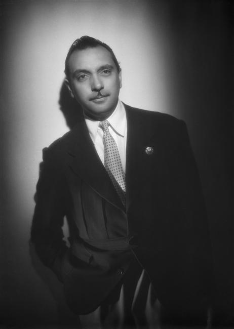 Studio photo